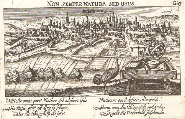 Valladolid. Copperplate engraving in 1640 by Daniel Meisner, comes from the second edition with the title Sciographia Cosmica edited by Paulus Fürst.